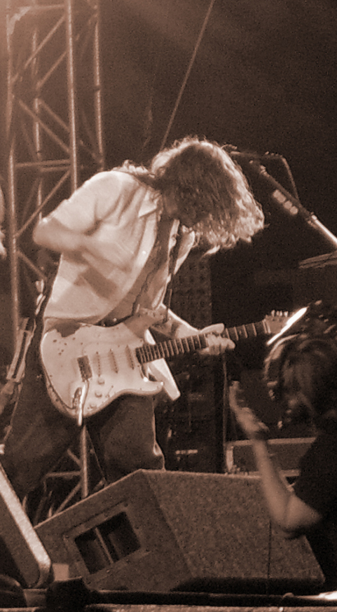 John Frusciante at Reading Madejski Stadium